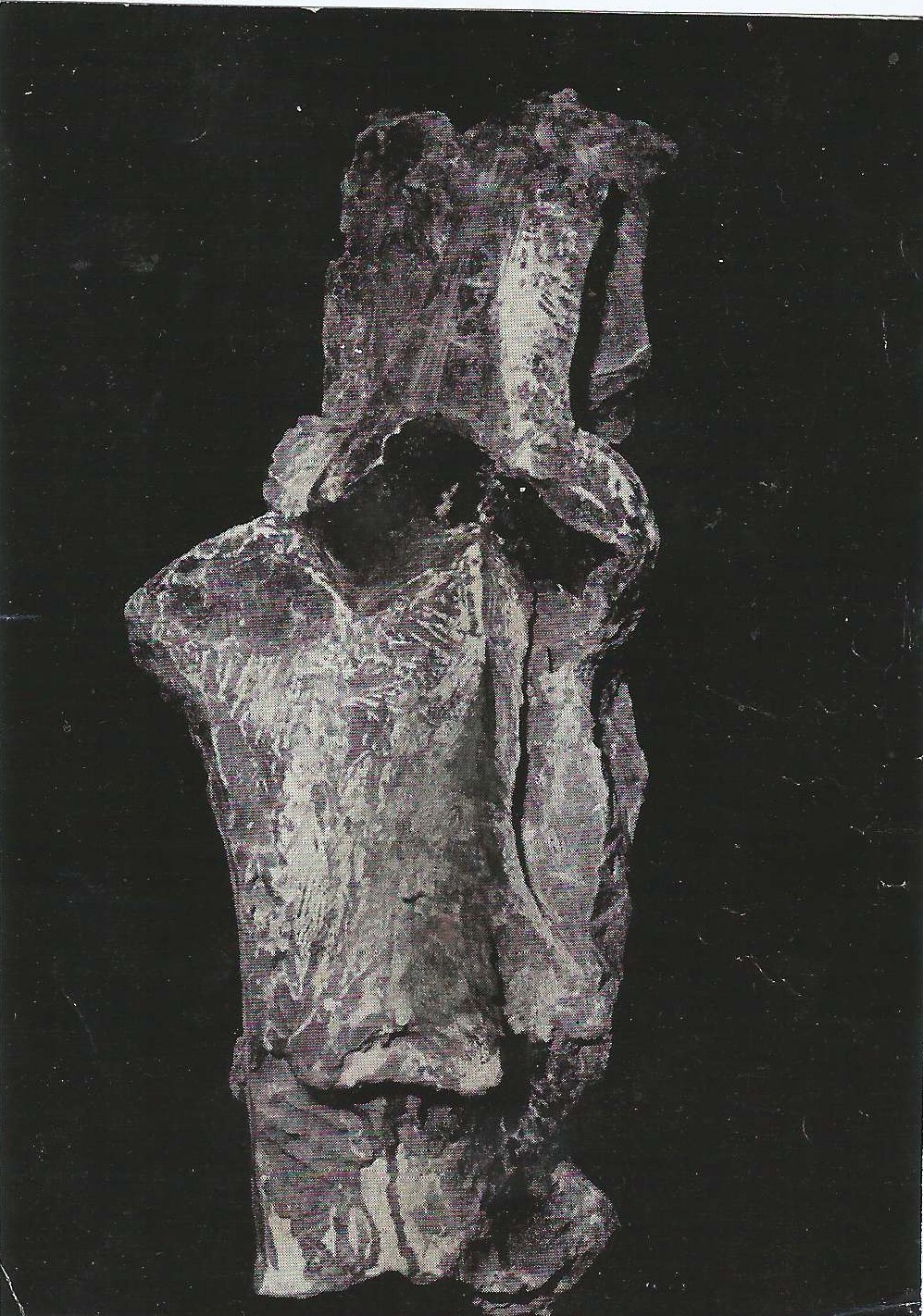 "Figura" Opera dell' artista Roberto Tirelli, 1961